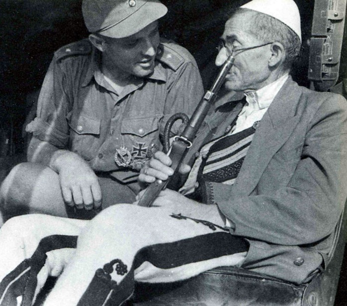 German soldier of the Wehrmacht talking to an Albanian holding a rifle